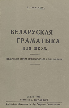 The cover of the fifth edition of „Biełaruskaja gramatyka dla škoł“ (en: Belarusian Orthography for Schools) by Branisłaŭ Taraškievič. Published in Wilno, 1929.